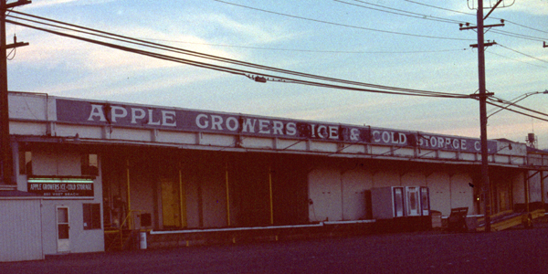 Part of Watsonville's agricultural heritage: the Cold Storage on Beach Street.